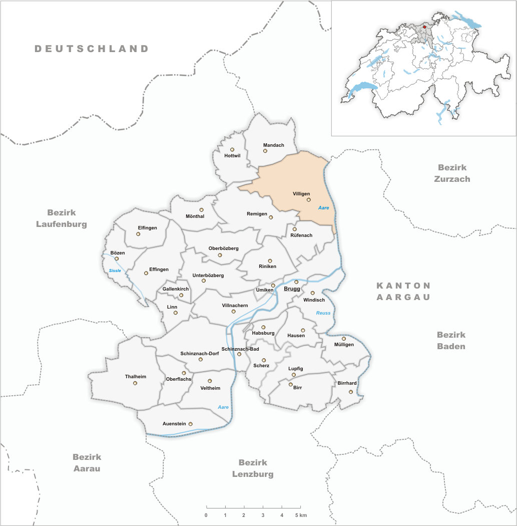 Municipality Villigen